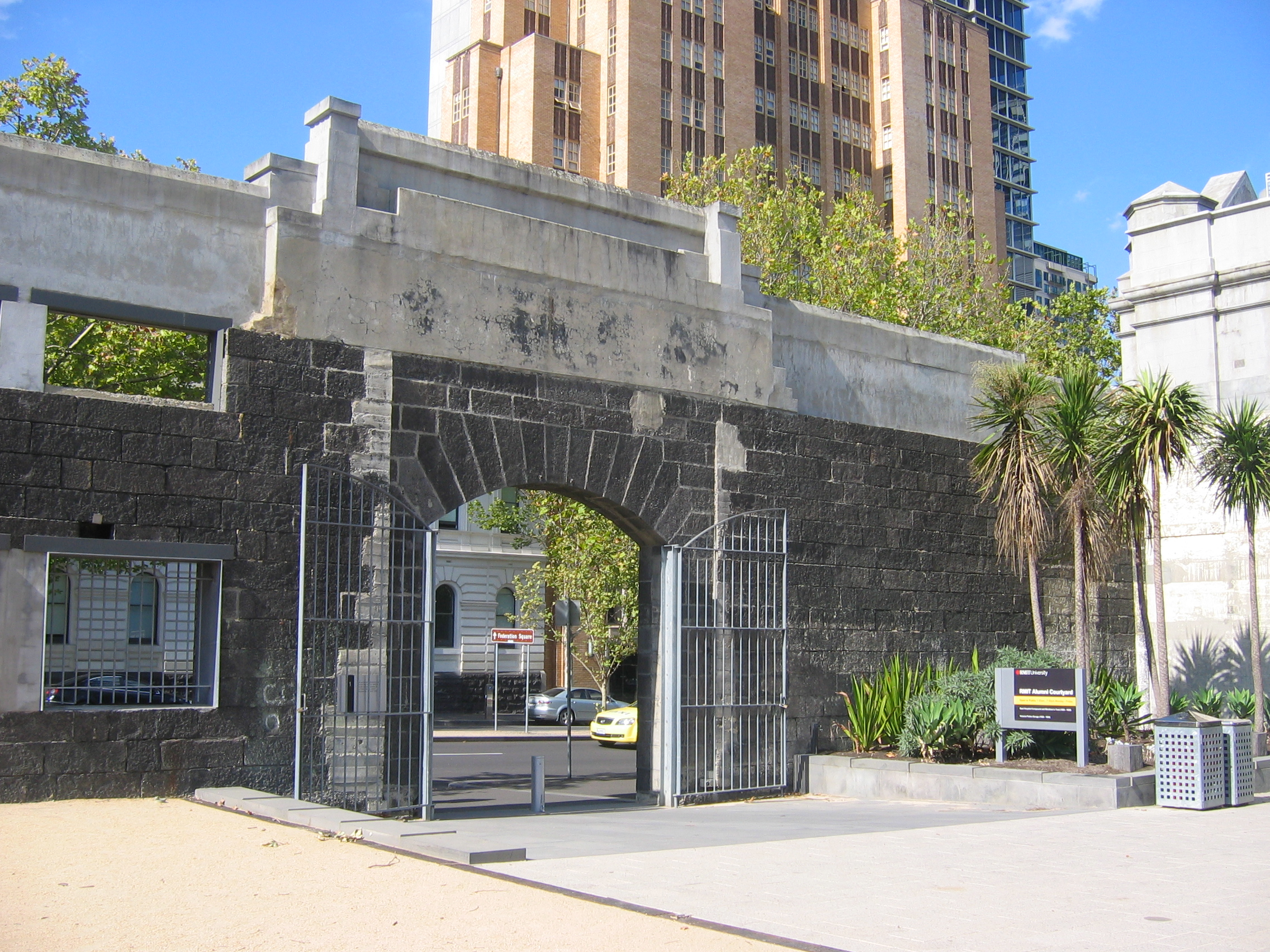 RMIT Alumni Court gates (formerly part of the Old Melbourne Gaol).